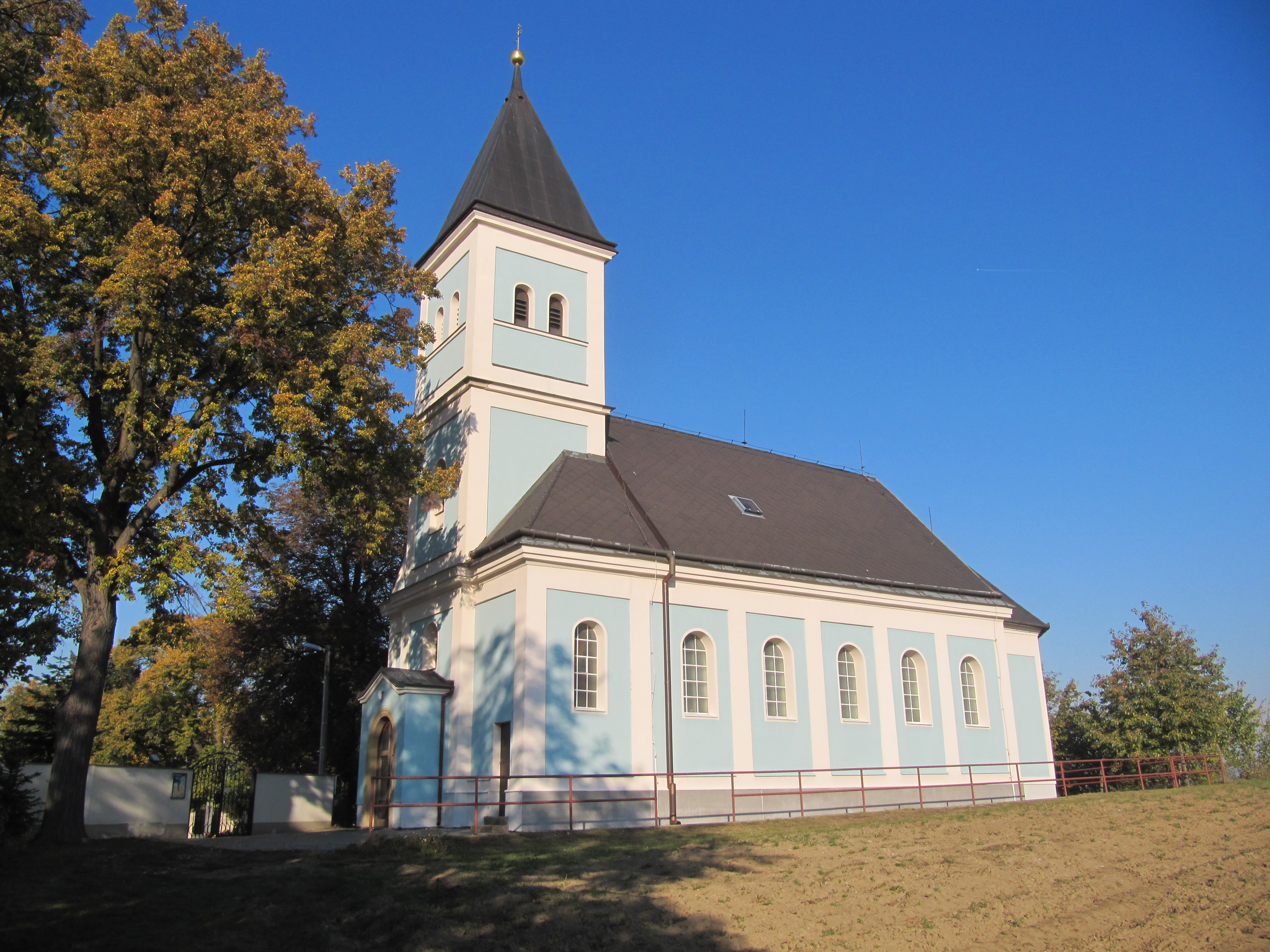 Hodějice in Vyškov District, Czech Republic. Chapel of St. Bartholomew from years 1882-1884.